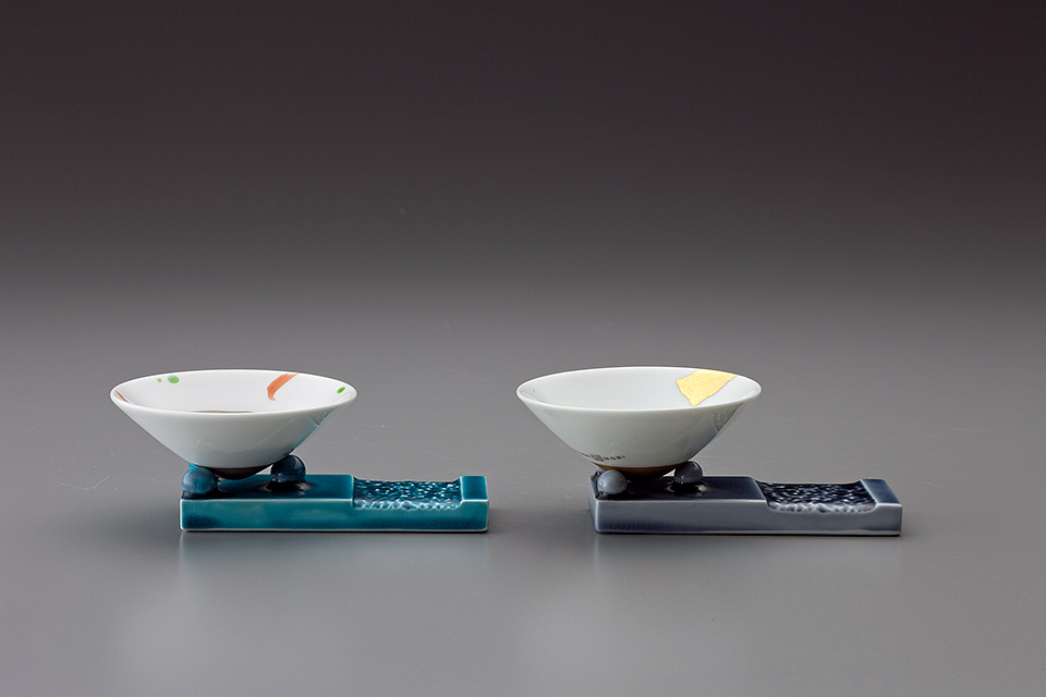 Sake Cup C (1989), Masahiro Mori (ceramic designer) designed